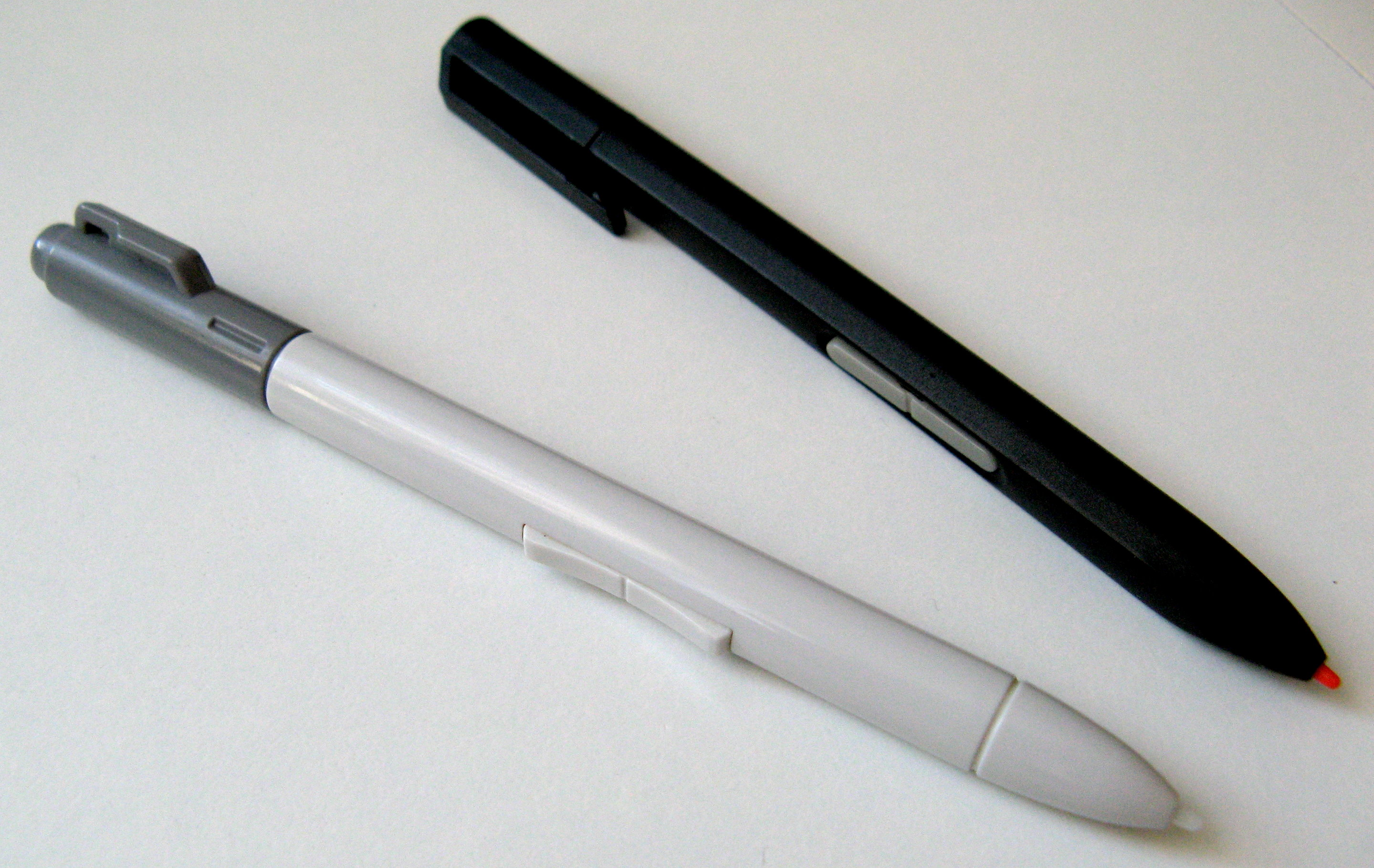 Pens for Tablet PCs (left FSC Lifebook T4210, right IBM Thinkpad X41t)